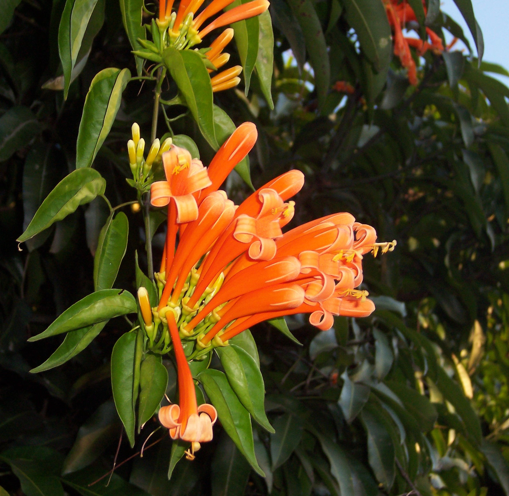 Pyrostegia venusta (Ker Gawl.) Miers (here on Réunion island)